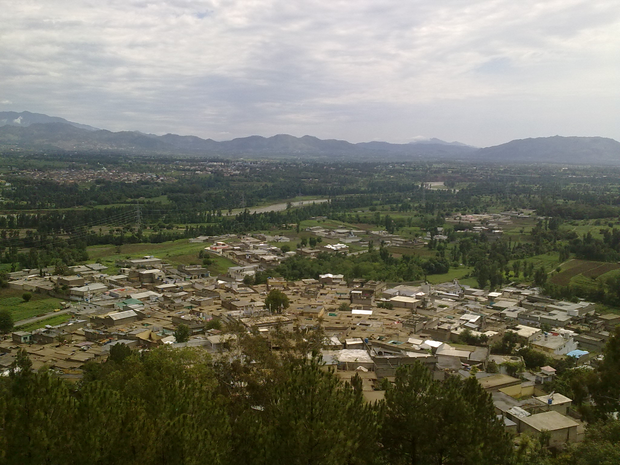 This is a picture of a beautiful village in Hazara division in khyber pakhtunkhwa Pakistan